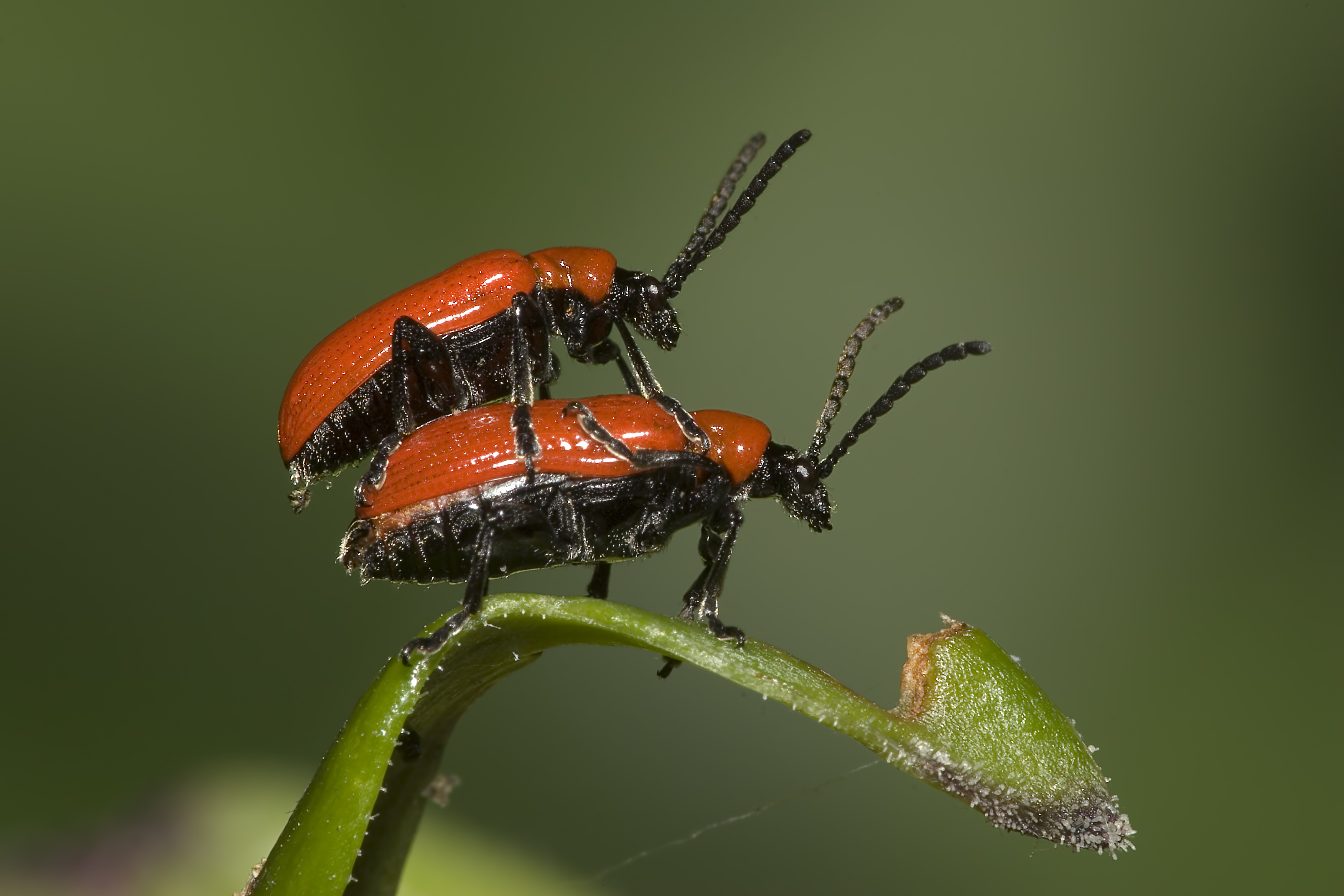 Scarlet lily beetle